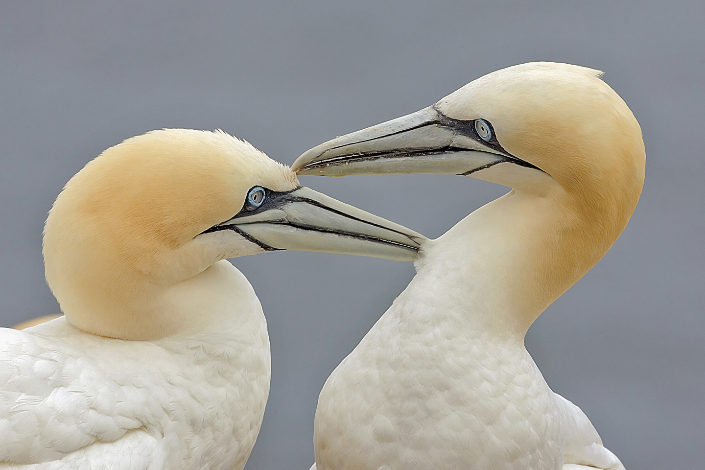 Northern Gannets (Morus bassanus), Bonaventure Island, Near Perce, Gaspe Penninsula, Quebec